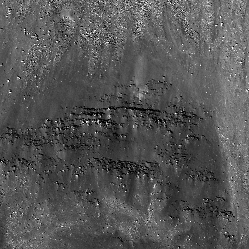 Layers of material are exposed forming small cliffs on the Lucian crater rim. LROC NAC M170321251R, image width is 500 m [NASA/GSFC/Arizona State University].